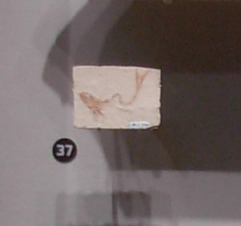 Fossil specimen of Anaethalion knorri from the Solnhofen Limestones of Germany. Carnegie Museum of Natural History #CM5079